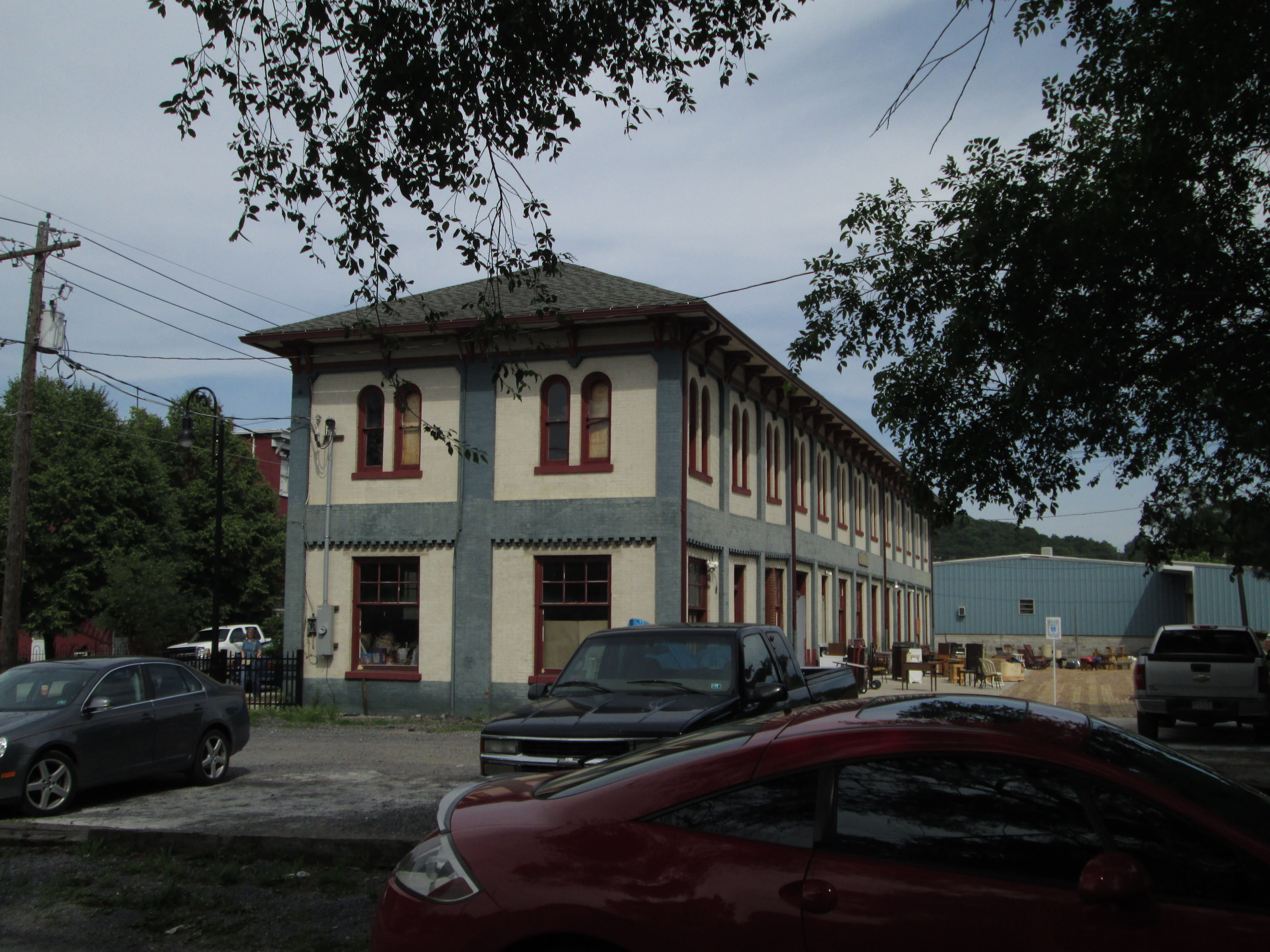 The former Pennsylvania Railroad station in the city of Huntingdon.